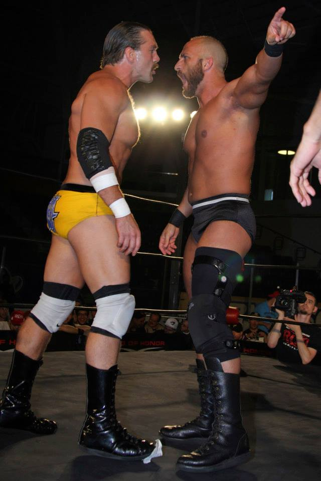 Tommaso Ciampa at a Ring of Honor show in Toronto, ON